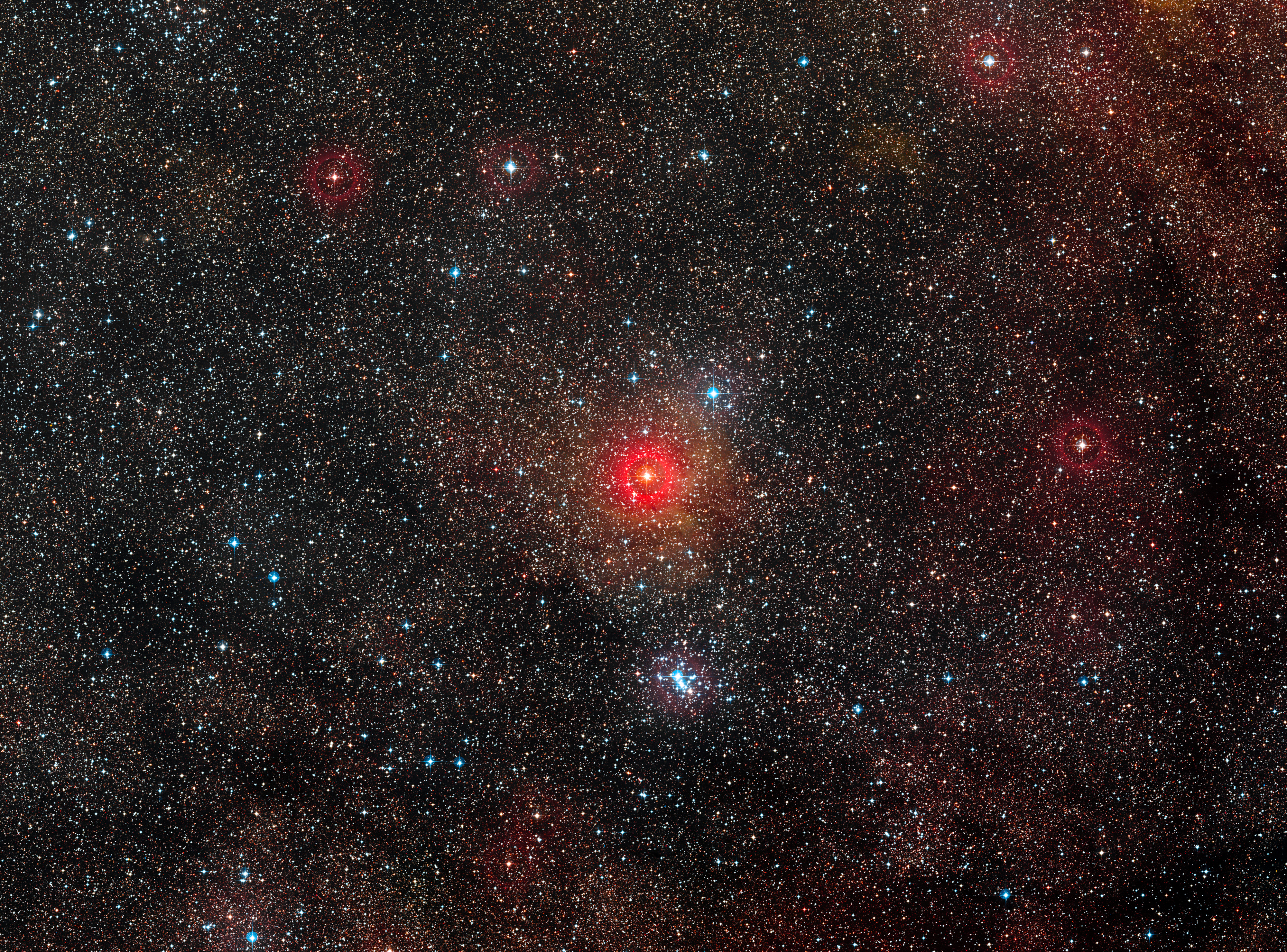 HR 5171, the brightest star just below the centre of this wide-field image, is a yellow hypergiant, a very rare type of stars with only a dozen known in our galaxy. Its size is over 1300 times that of the Sun — one of the ten largest stars found so far. Observations with ESO’s Very Large Telescope Interferometer have shown that it is actually a double star, with the companion in contact with the main star.